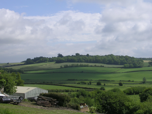 Woodbury Hill. Looking across the Bere Valley at Woodbury Hill. Appropriately enough, its SW side is covered in trees, obscuring the earthworks of the iron-age camp on the site. Woodbury Hill has been used in various ways since the Iron Age: it was the site of the Victorian Woodbury Hill Fair.